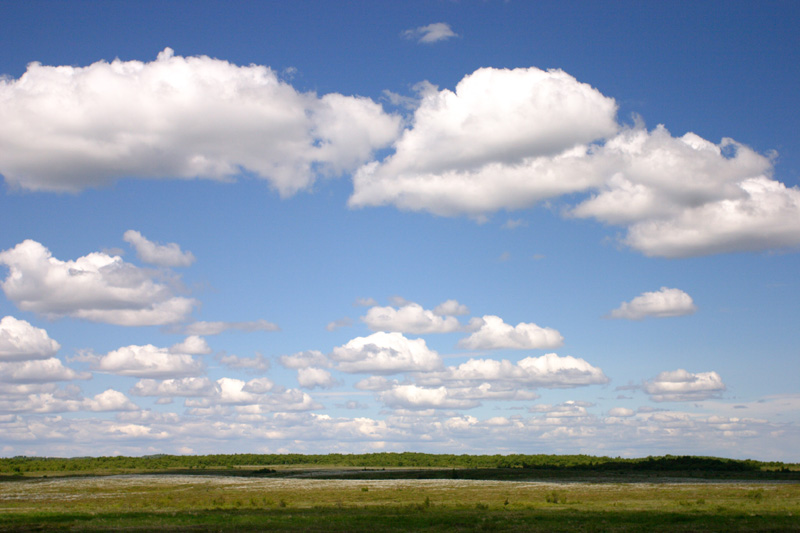 Bristol Bay